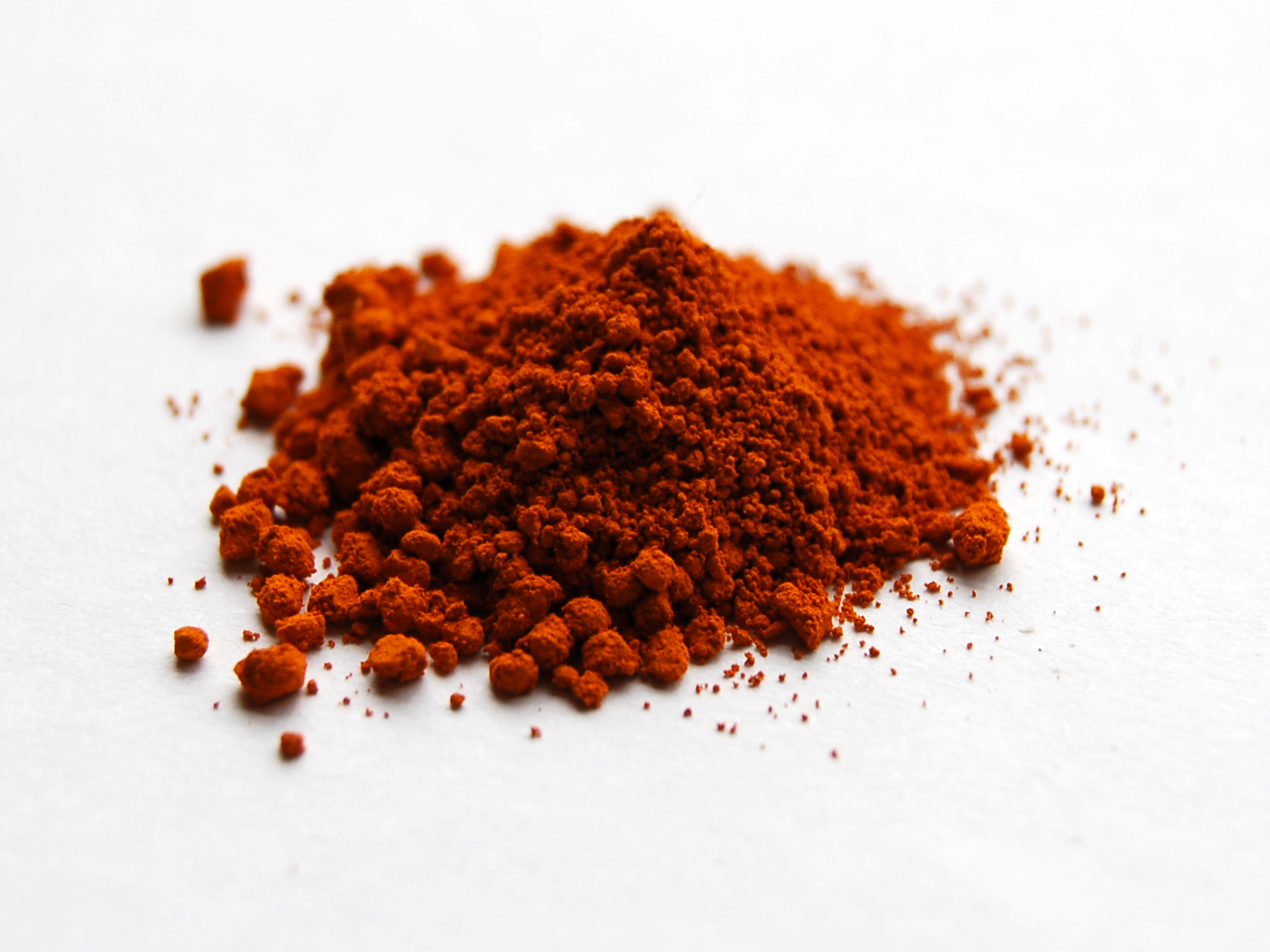 Sample of Alizarin